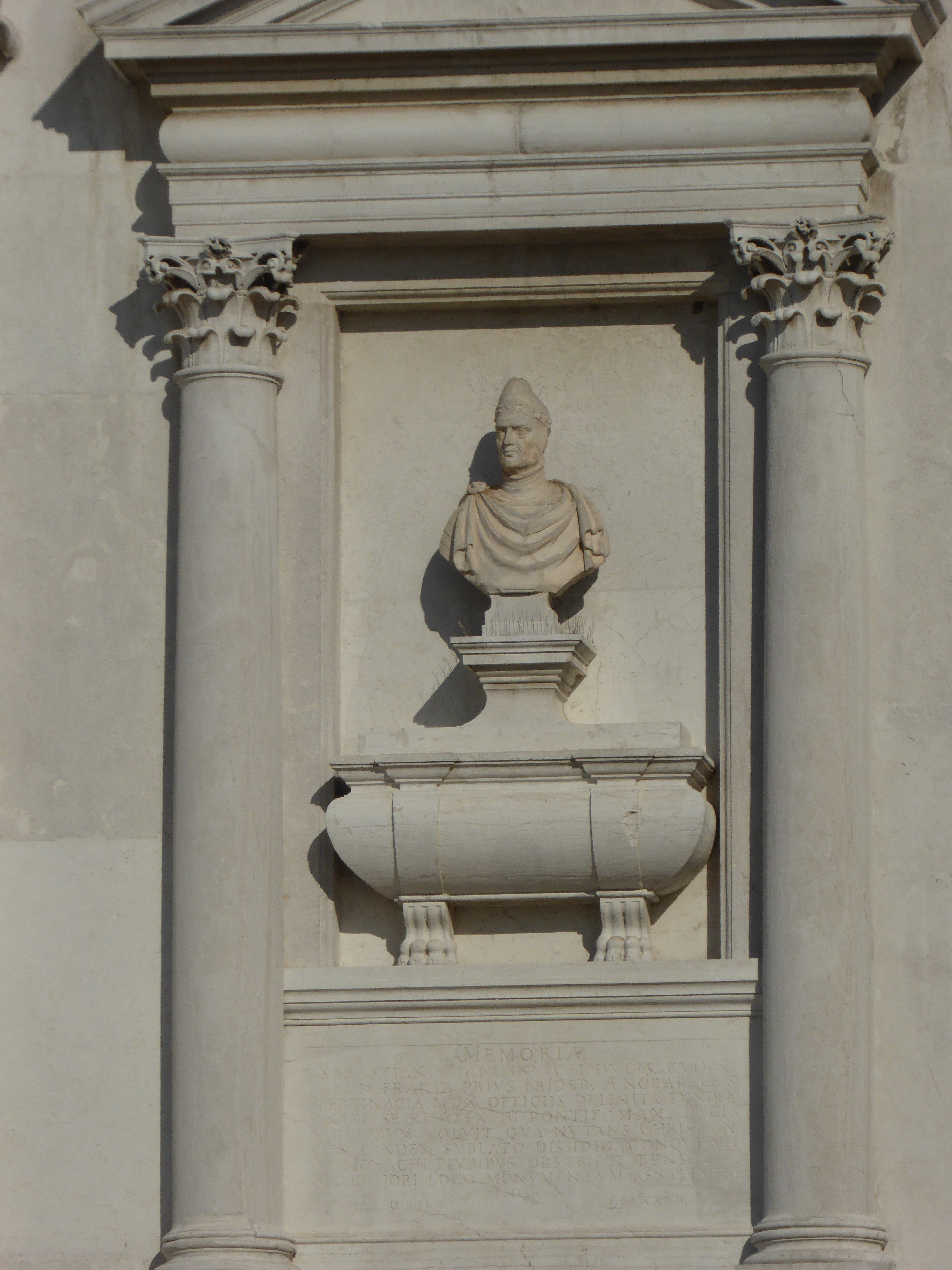 Basilica di San Giorgio Maggiore (Venice) - Facade